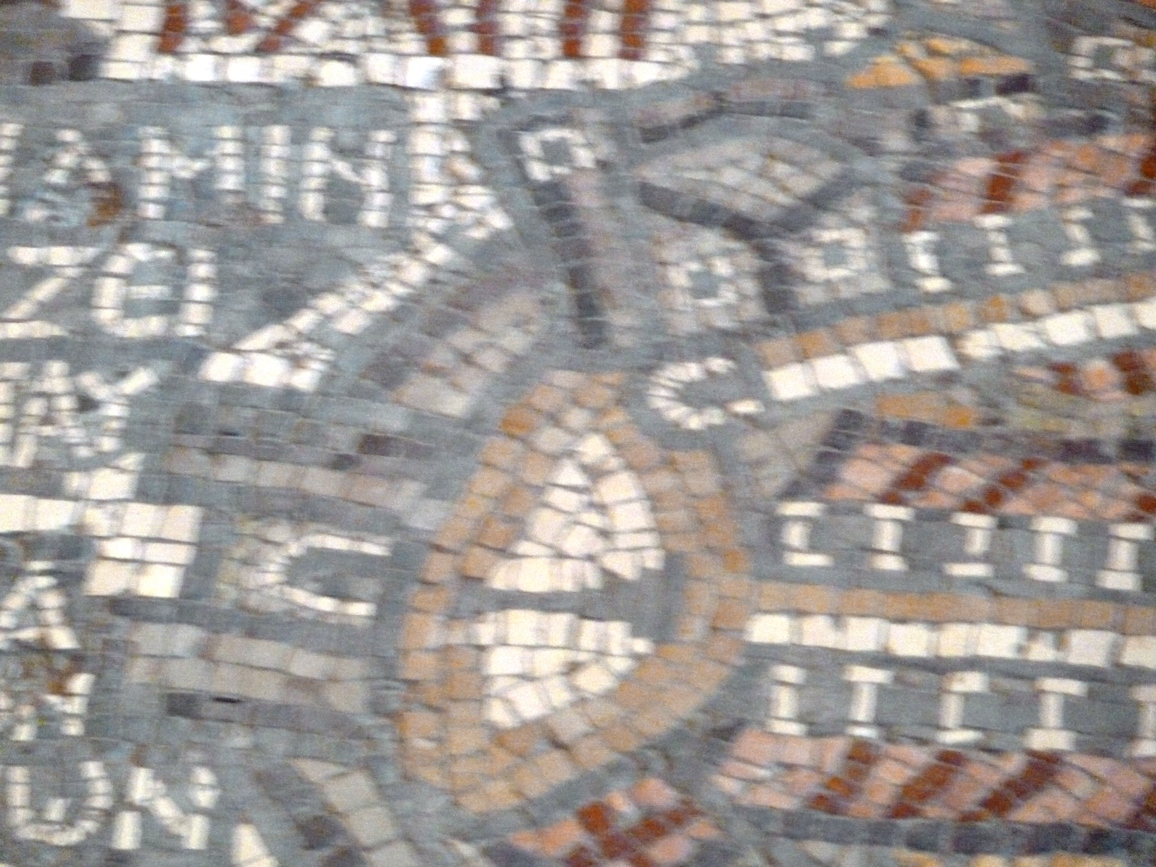 Byzantine floor mosaic map at St. George Church, Madaba, Jordan